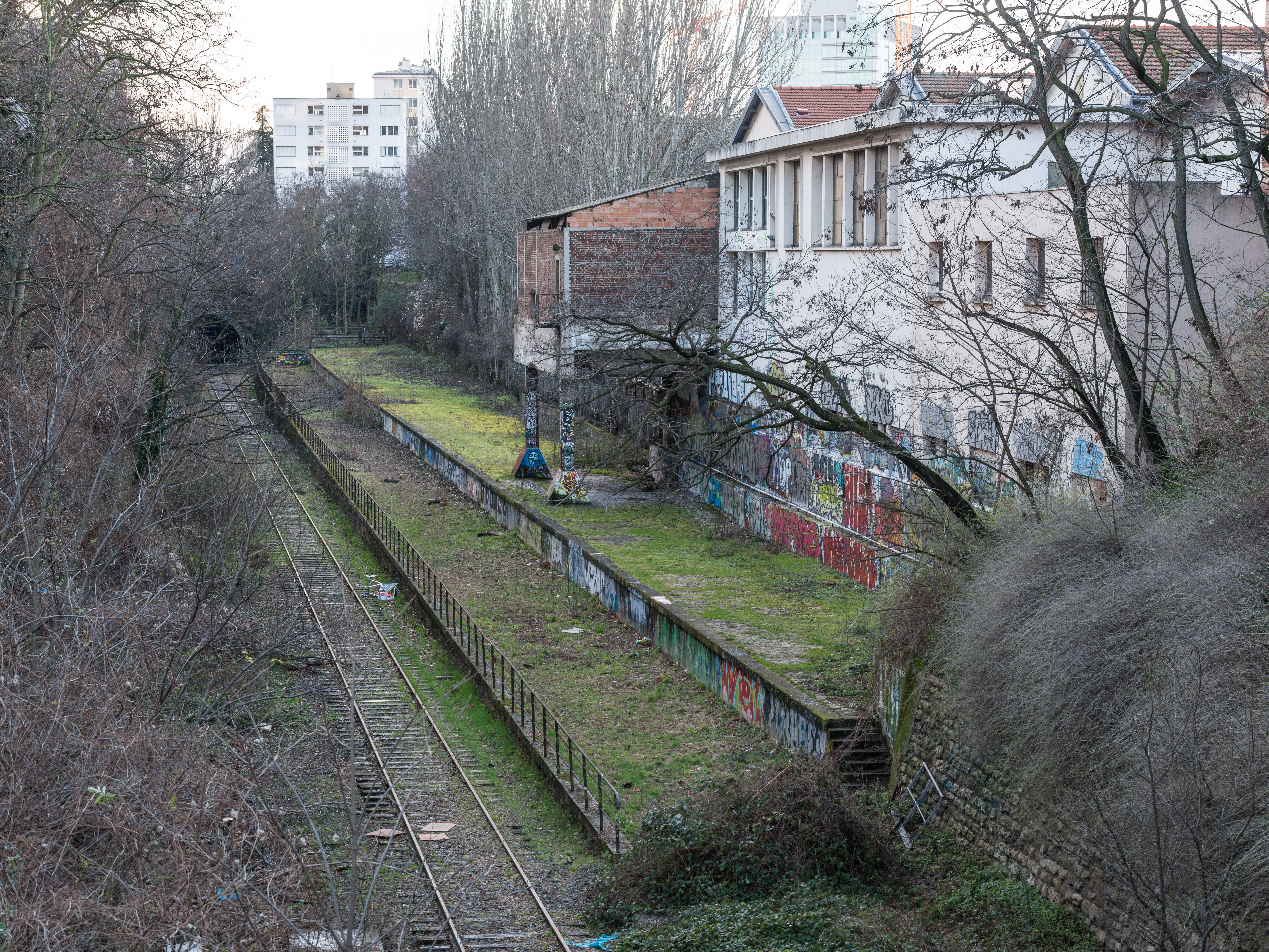 The abandoned Gare des abattoirs de Vaugirard station that was formerly used by the Petite Ceinture train. The station is located closely to today's Parc de Georges Brassens